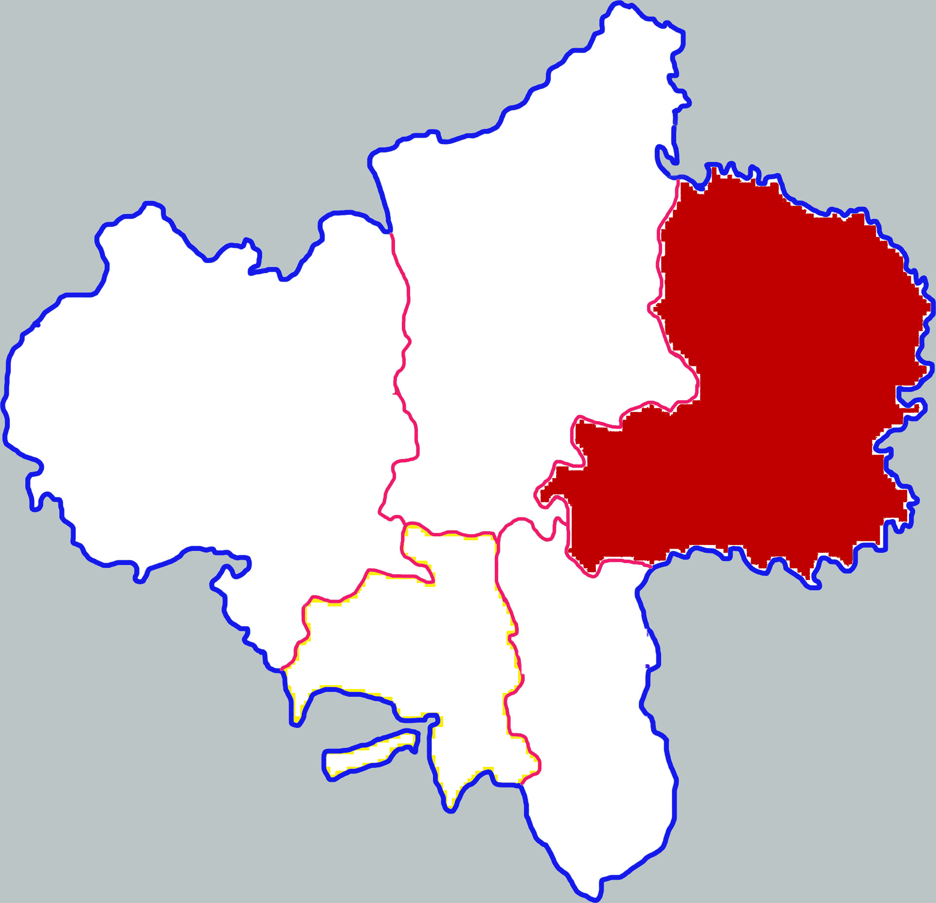 Location of Pengyang county in Guyuan city, China